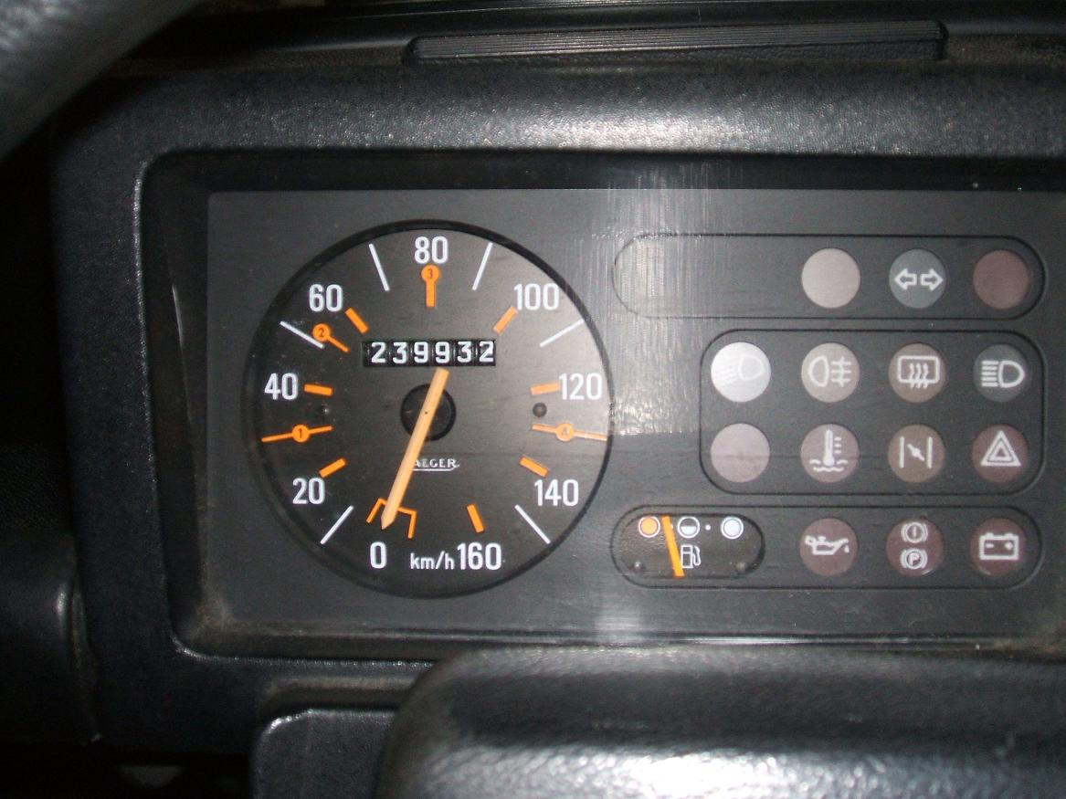 kilometers of a GTL 1986